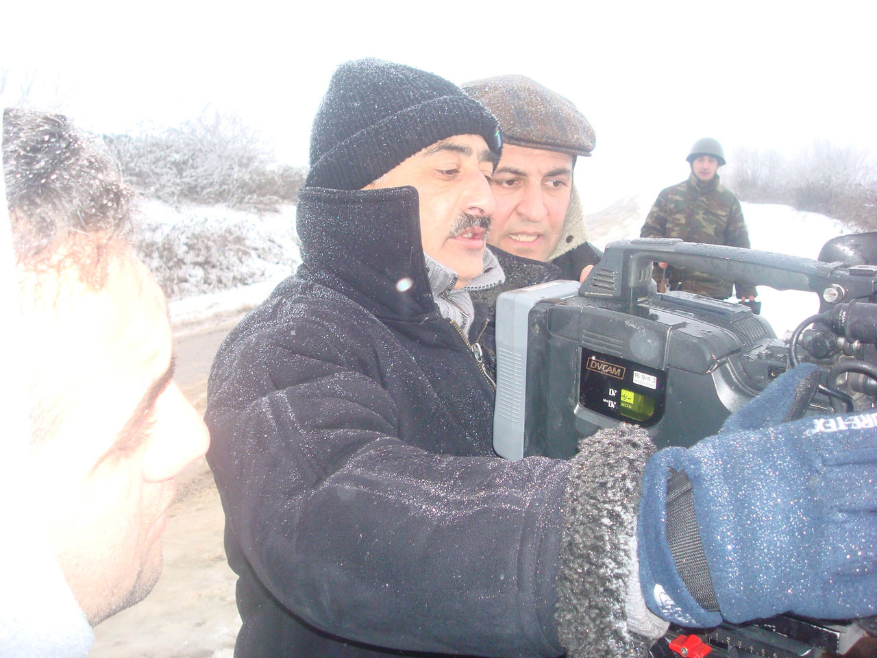 Original photo